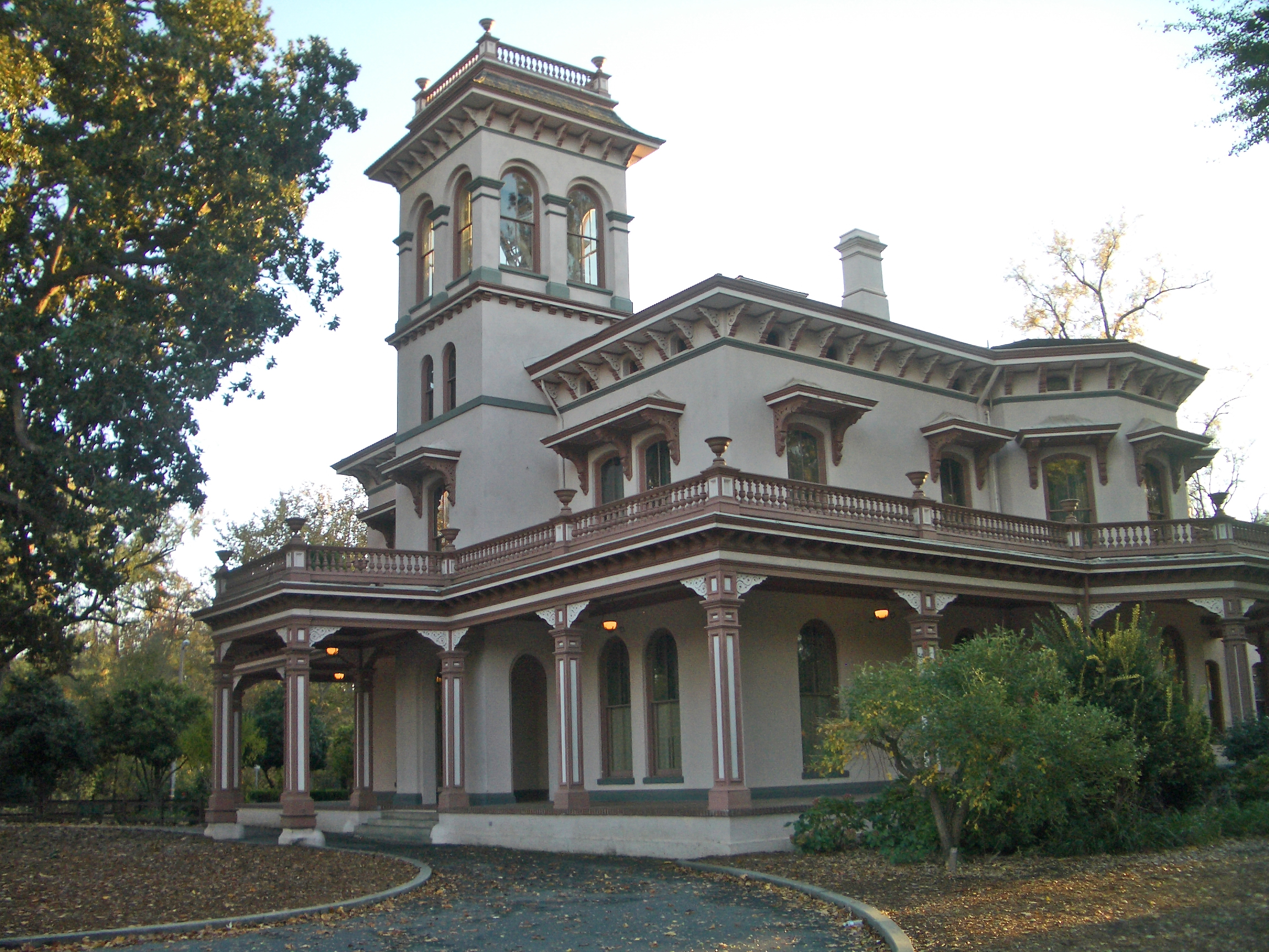 Photograph of Bidwell Mansion (exterior) in Chico, California, by Michael Favor, 2006.11.14, released under GFDL, late afternoon in autumn --Michaelfavor 00:07, 17 November 2006 (UTC)